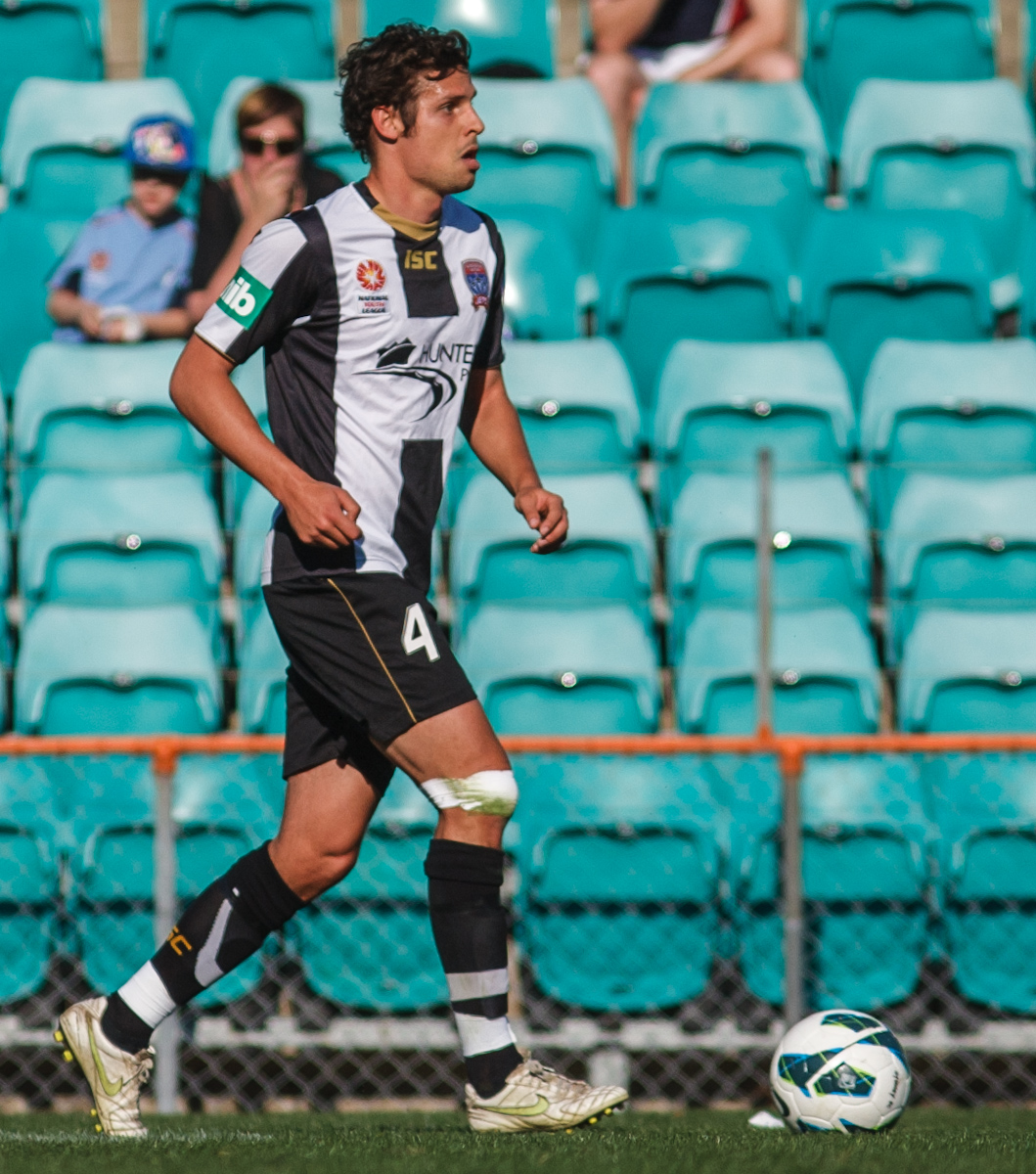 Joshua Mitchell playing in a pre-season match between Sydney FC and Newcastle Jets.